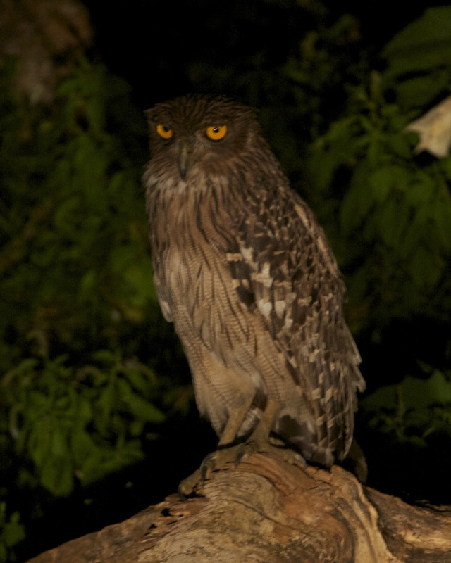 Brown Fish-Owl Ketupa zeylonensis Nominate race, Ketupa zeylonensis zeylonensis Yala National Park, Sri Lanka 8th. January 2012 Distribution: ssp: 690V0052.jpg